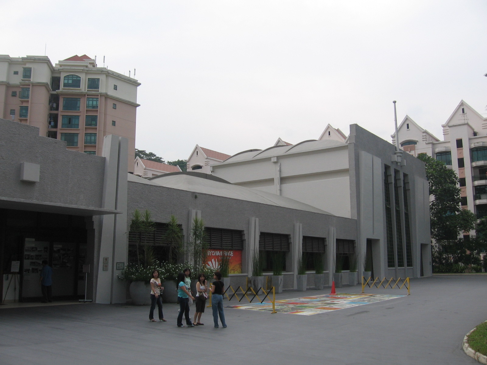 Old Ford Motor Factory. Taken by User:Sengkang of ENglish.Wikipedia in Mar 2007.